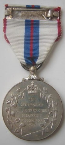 Queen Elizabeth II Silver Jubilee Meda,l standard reverse